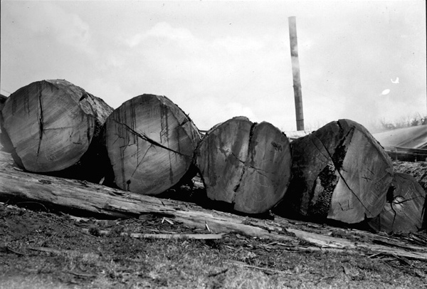 4 karri logs from one tree, each log 25 feet long, girth 22 feet to 18 1/4 feet, 83 1/2 tons of useful timber [picture]